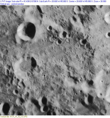 Montanari lunar crater - Lunar Orbiter IV image LO-IV-131H LTVT